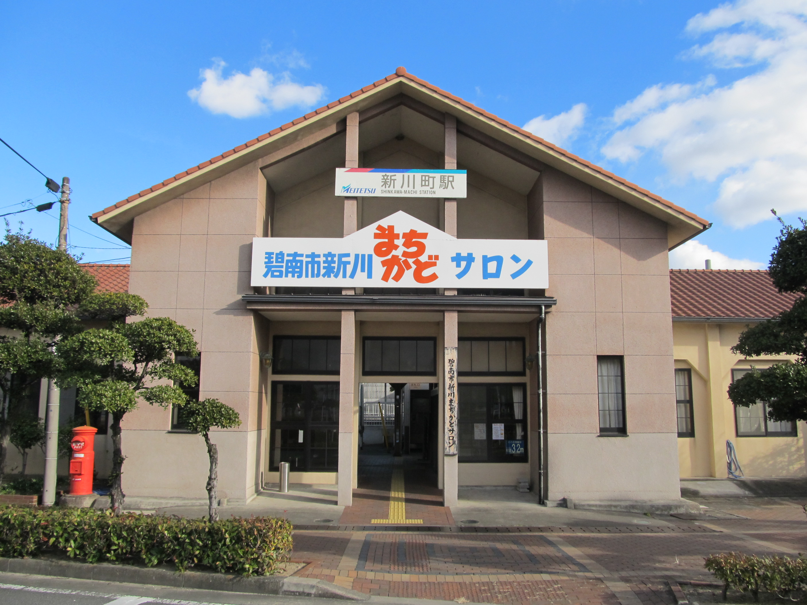 Nagoya Railroad Mikawa Line Shinkawa-machi Station Former Building